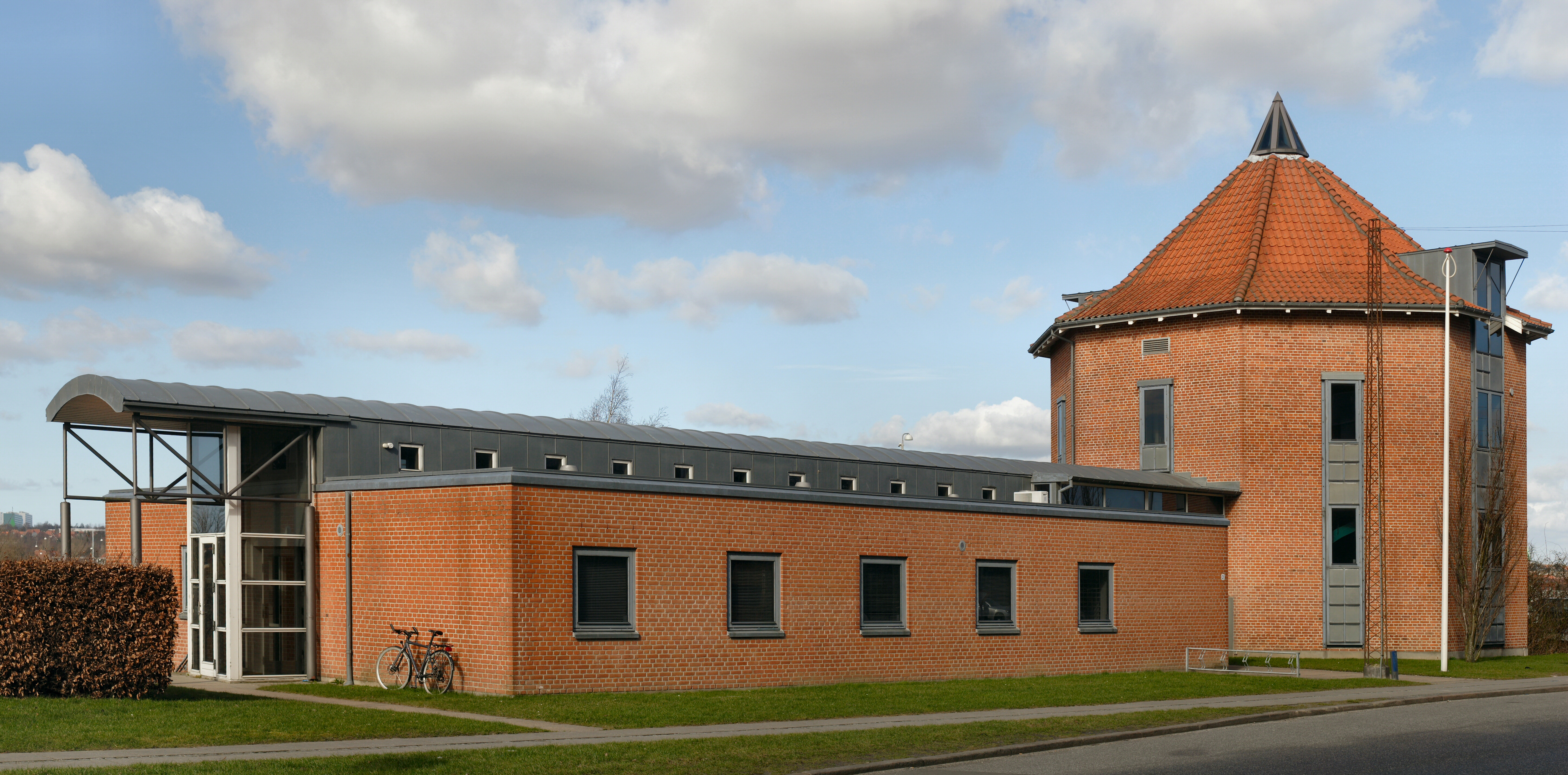 A former water tower in Århus in Denmark, now an office Ślůnski: Downo wodno wjeża we mjeśće Århus, Dańijo